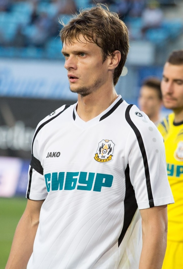 Andrei Pavlenko with FC Tyumen in a game against FC Dynamo Moscow.